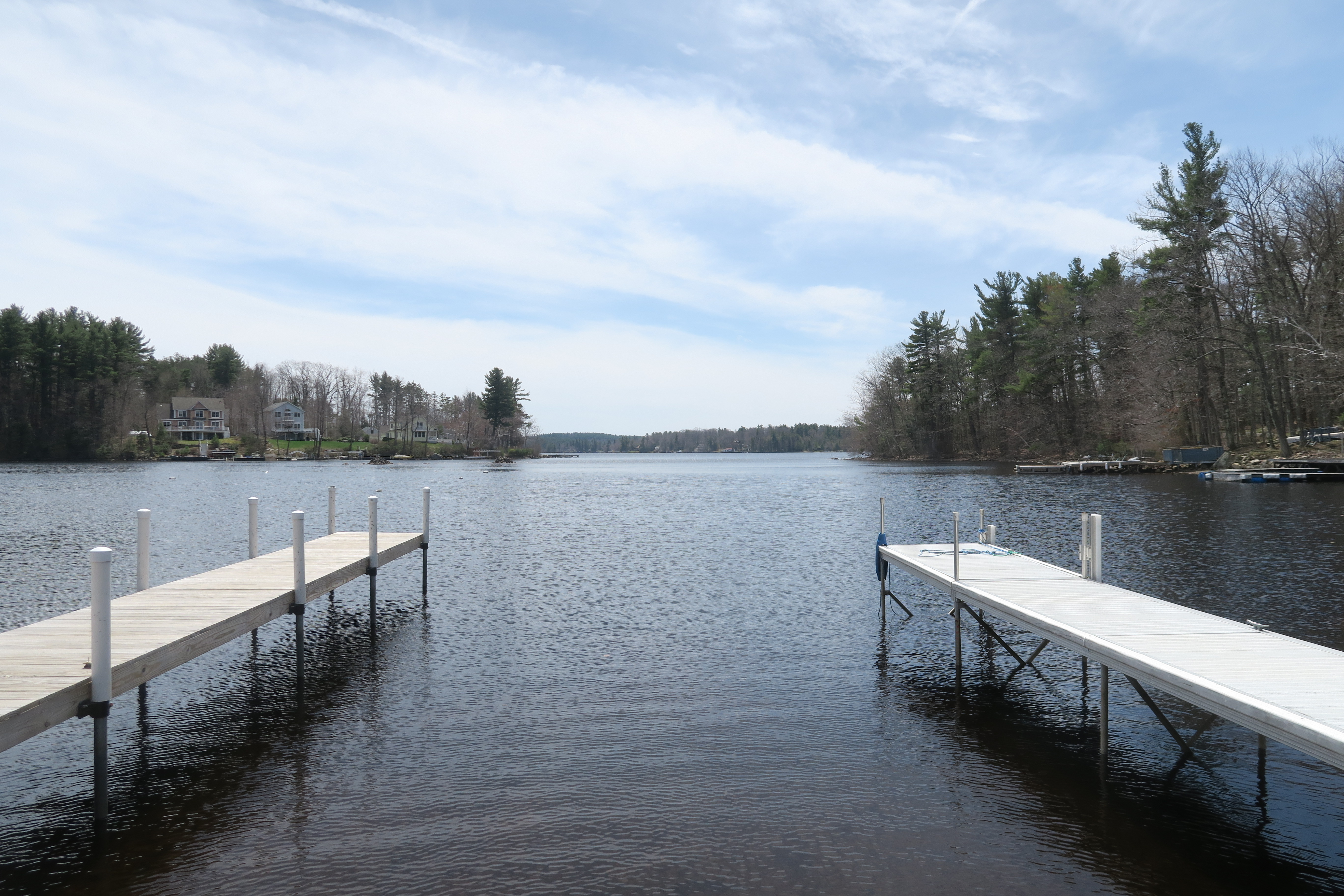 Otis Reservoir, East Otis Massachusetts